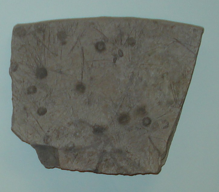 fossil of Diademopsis crinifera